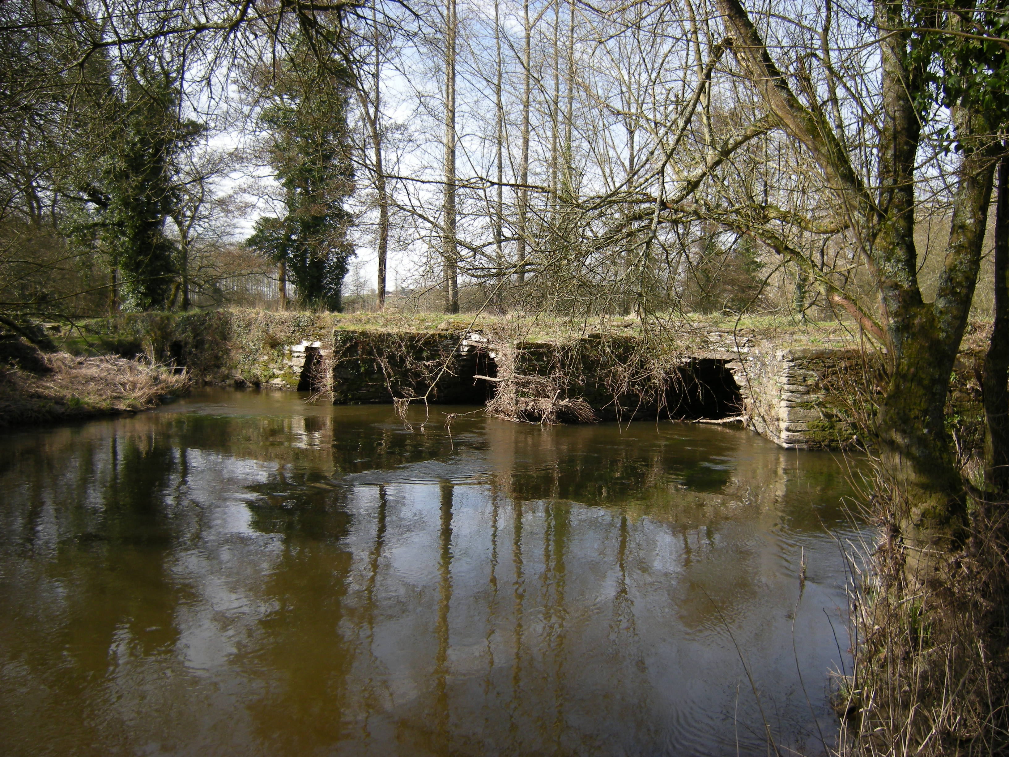 «Gallic» bridge on Hyères river at Plunévézel, Finistère, Britanny, France